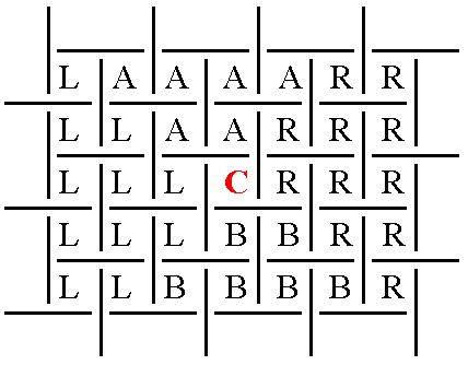 A BSG example.